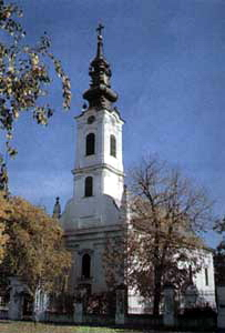 Orthodox Church in Bačka Palanka, St. John the Baptist (18th century), Serbia, Vojvodina/L'église Saint-Jean-Baptiste de Bačka Palanka, Serbie, Voïvodine